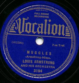 Vocalion Records 78 of "Muggles" by Louis Armstrong, presumed fair use